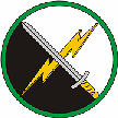 1st IOC SSI